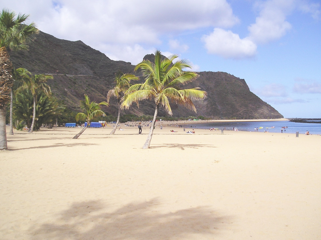 Playa las Teresitas in the fishing village of San Andrés